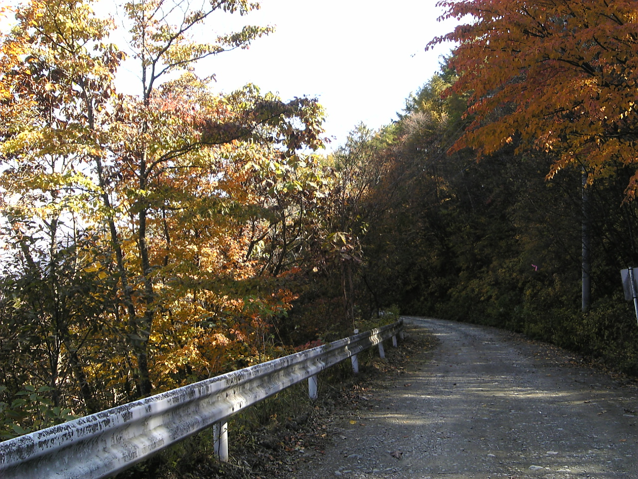 The Mikabo Super Forest Road